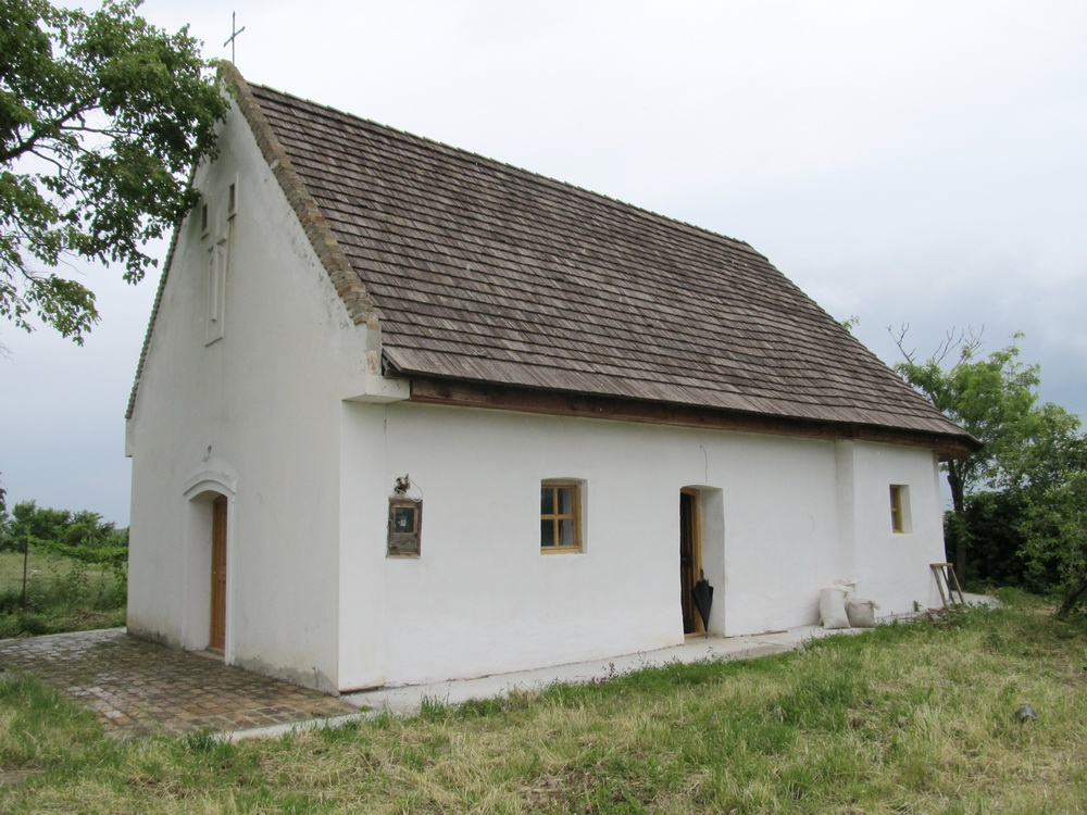 Old Serbian Orthodox Church „Namastir" in Botoš, Zrenjanin